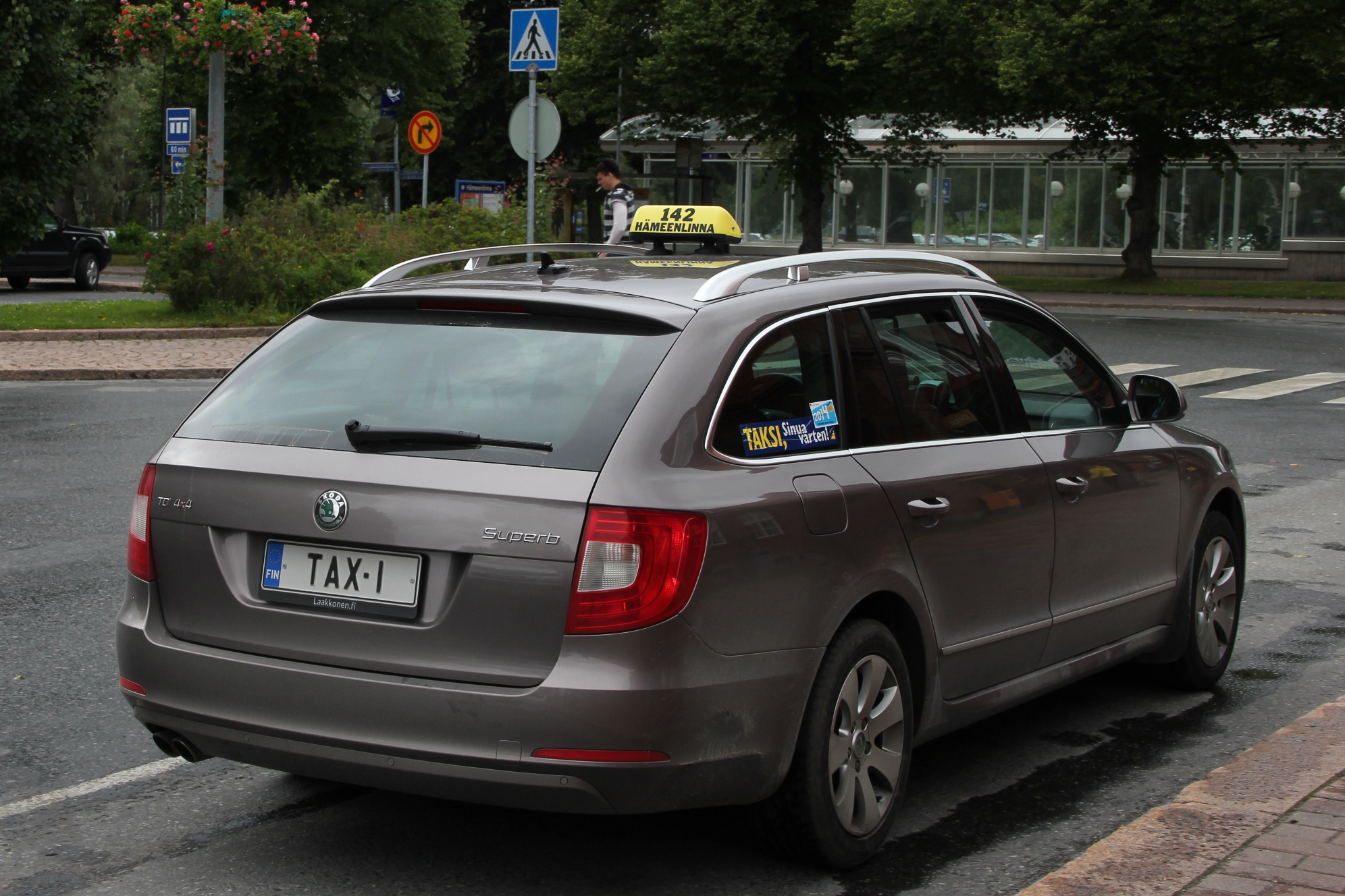 Taxi on taxi station in Hämeenlinna railway station. Škoda Superb II Combi.